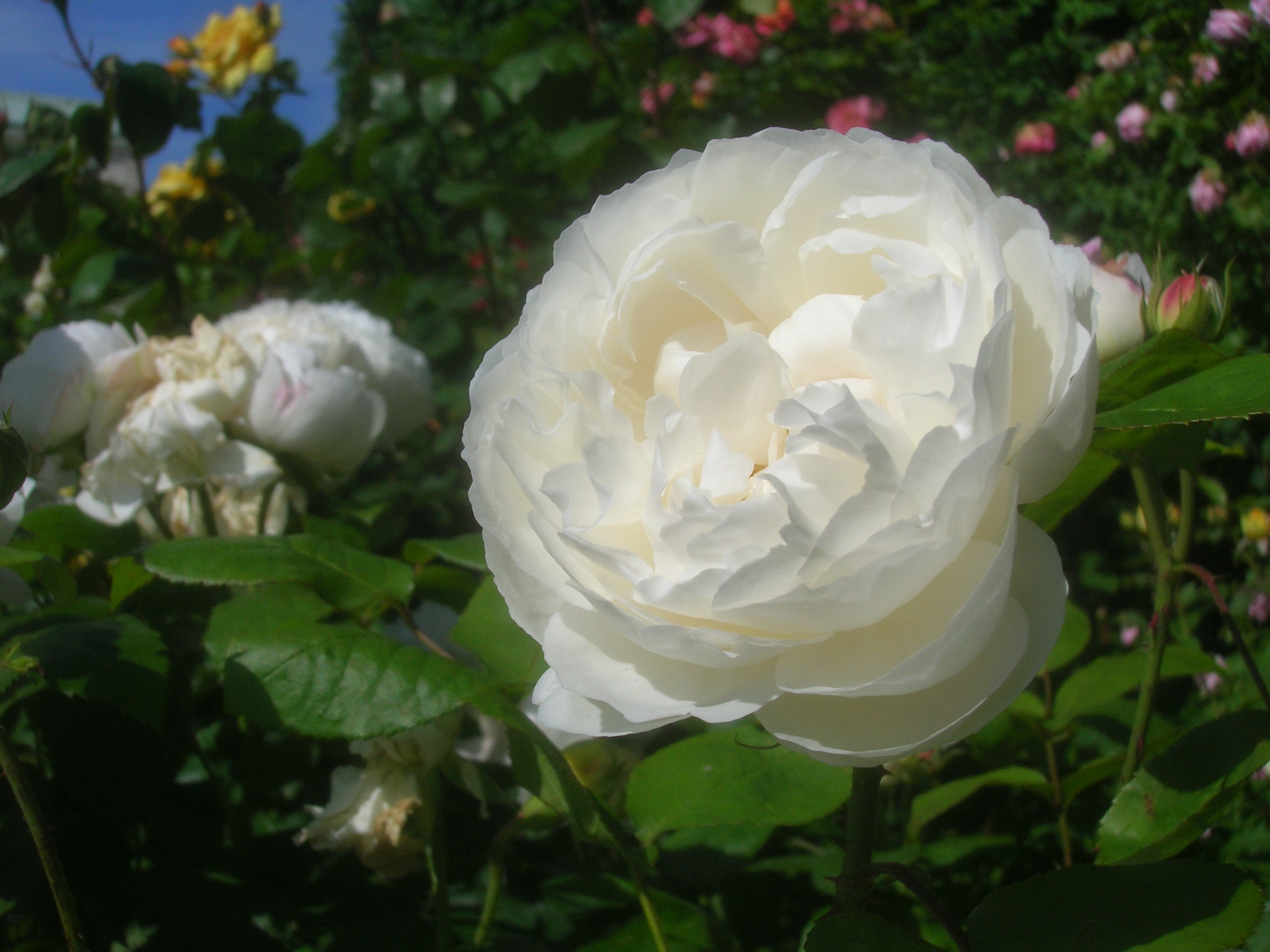 Rosa 'Winchester Cathedral' in the Volksgarten in Vienna.